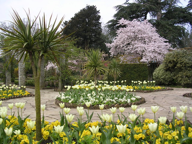 Tulips in The Rookery A lovely display of April tulips in The Rookery, Streatham Common